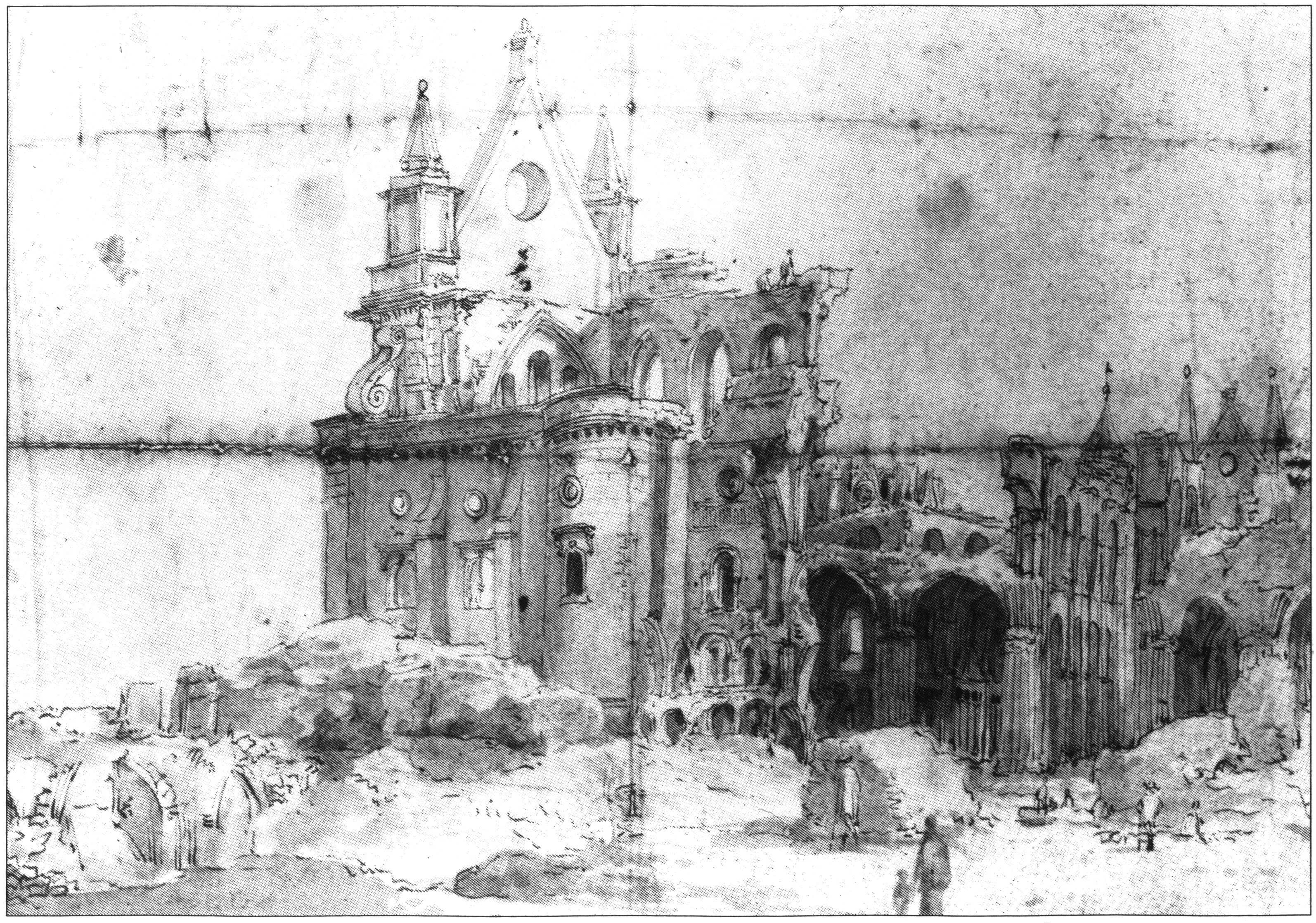 Old St Paul's Cathedral in ruins after the Great Fire of London (1666)